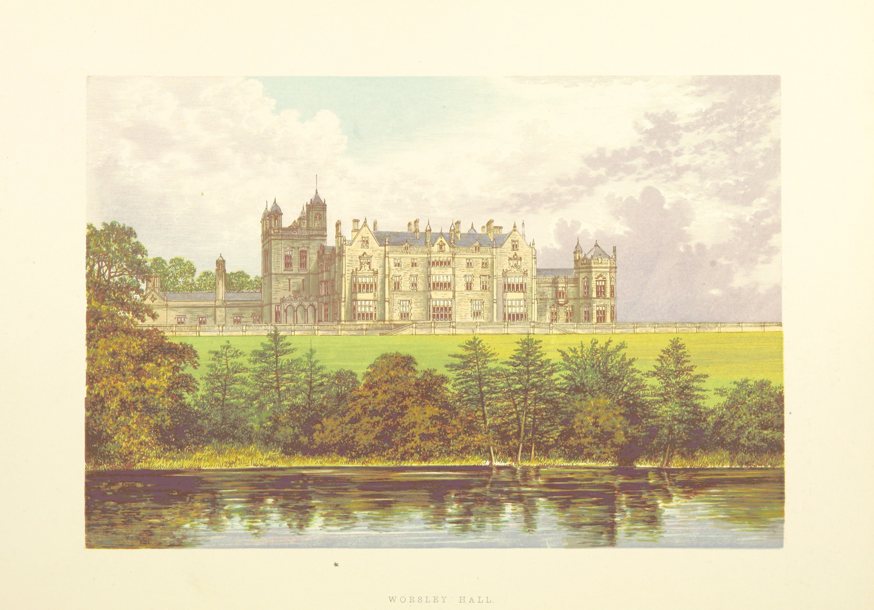 Worsley New Hall, in Worsley near Manchester. Built in 1846 by Edward Blore for Francis Egerton, 1st Earl of Ellesmere, on the site of a previous building later called Worsley Brick Hall. The hall was badly damaged by fire in 1943 and demolished in 1949.